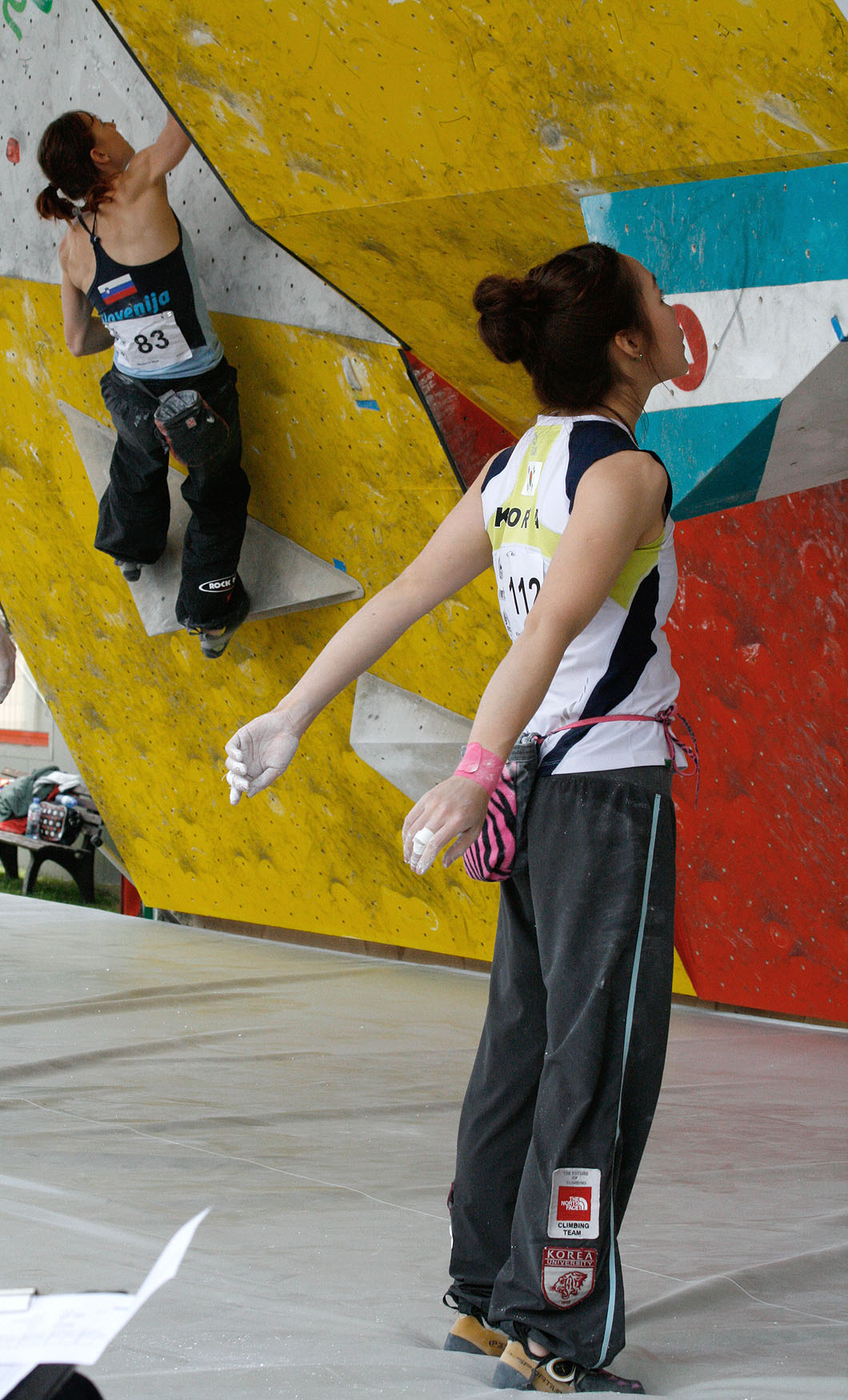 Jain Kim and Mina Markovič during the semi-finals at the IFSC Boulder Worldcup Vienna 2010.